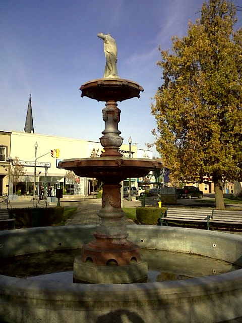 Pattullo's Fountain in front of the Woodstock Museum.